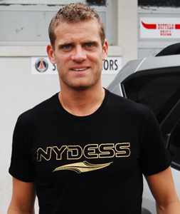 Jérôme Rothen photo.